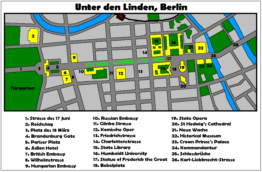 Map of Unter den Linden, Berlin, with important places and buldings along or around the street. The map was made in 2006.